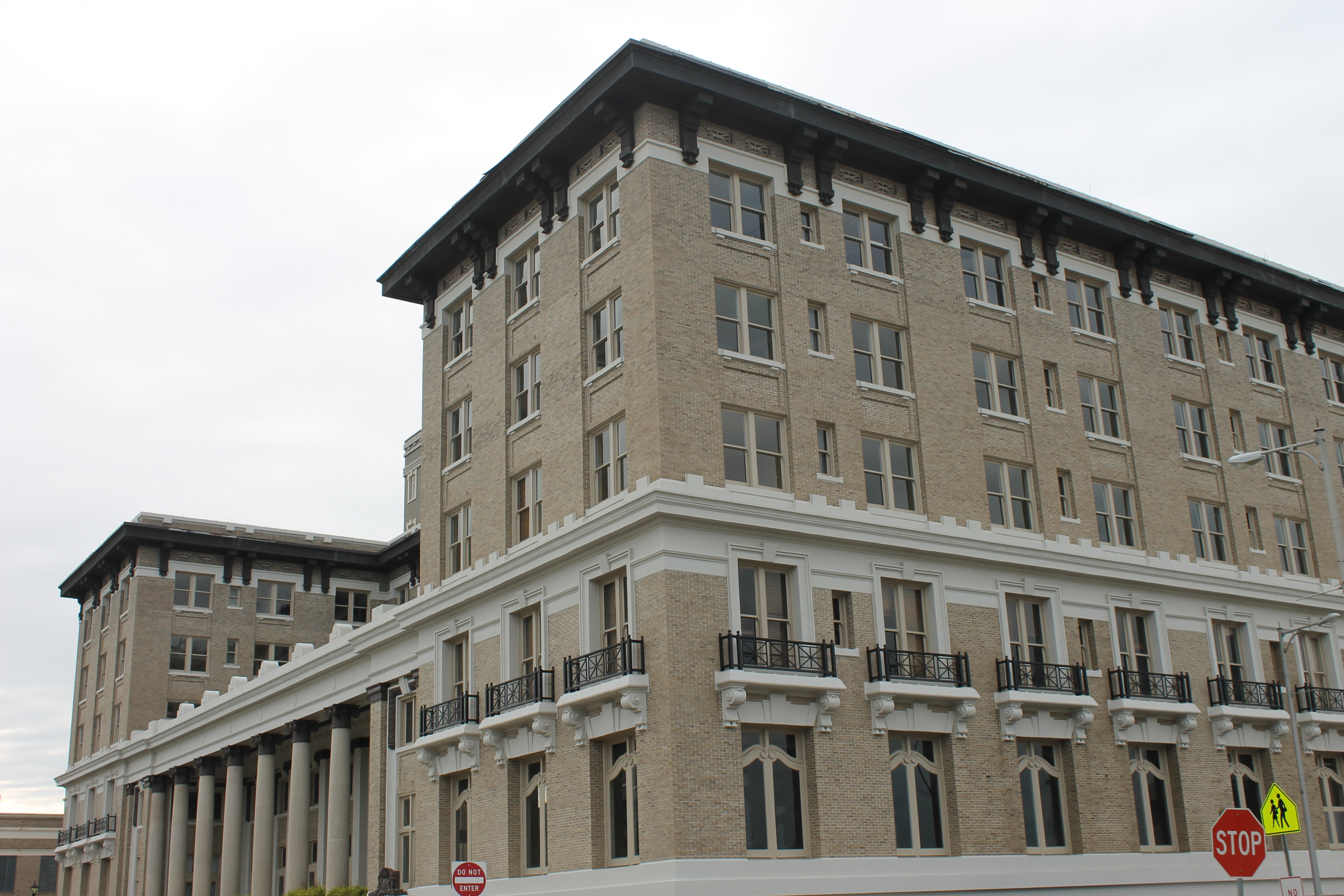 Hotel Bentley in Alexandria, LA, awaiting reopening (2014 photo)